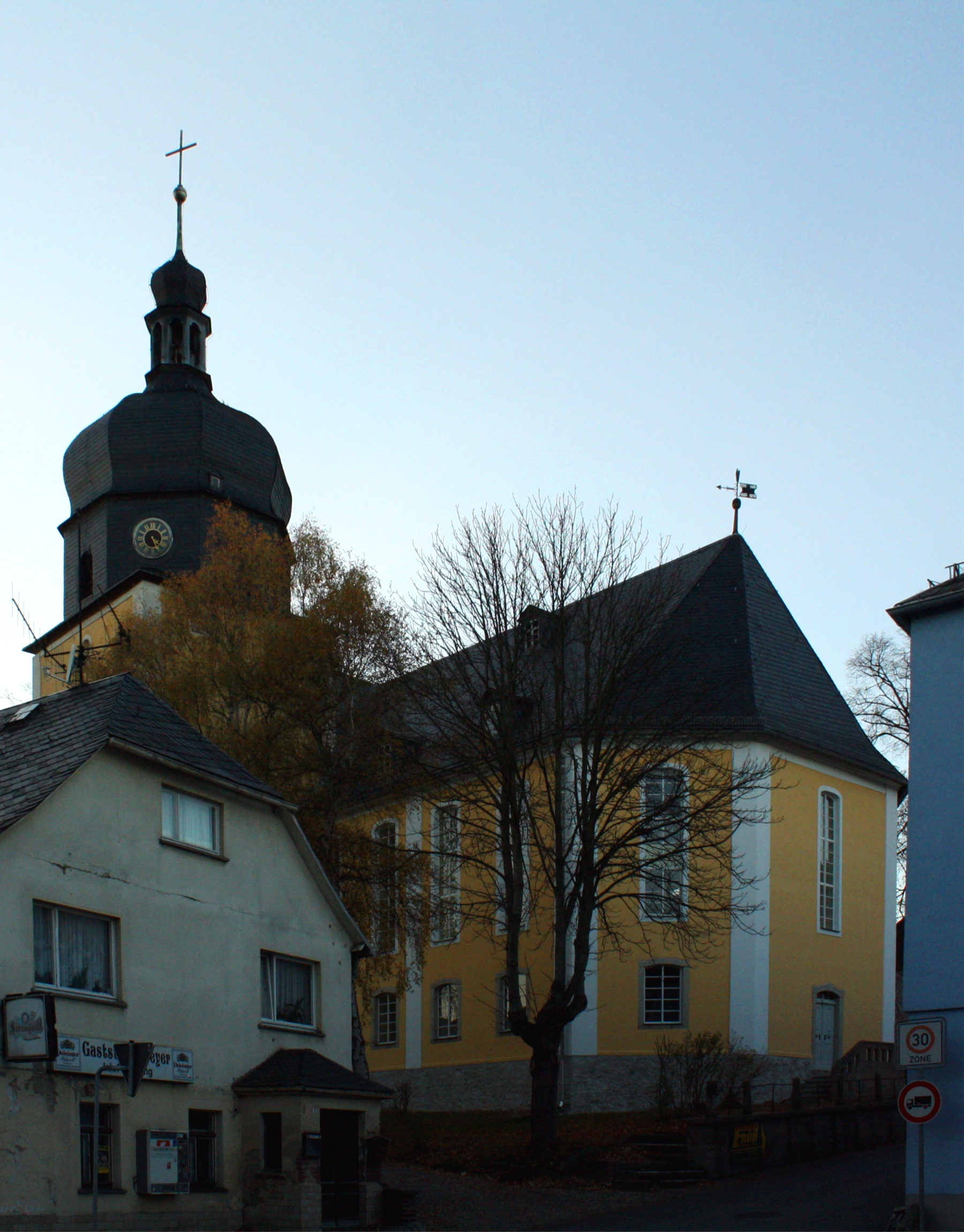 Church in Gefell near Schleiz/Thuringia